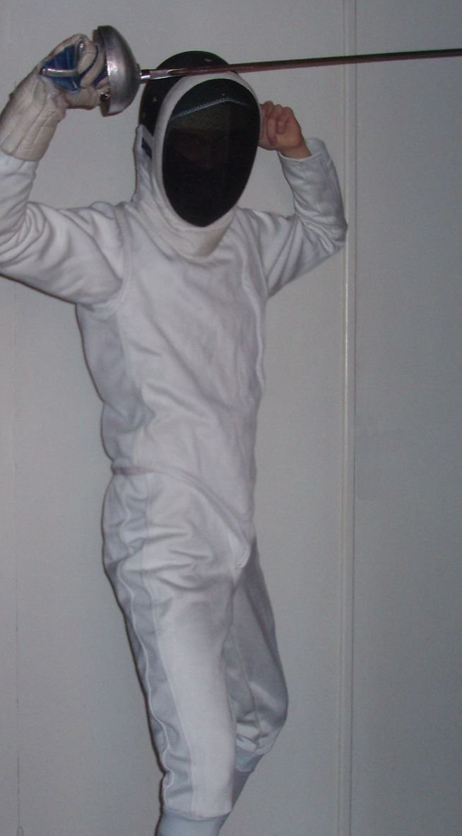 (high) Fifth position in Fencing (Quinte), used with Sabre. (the picture has been done with an épée)